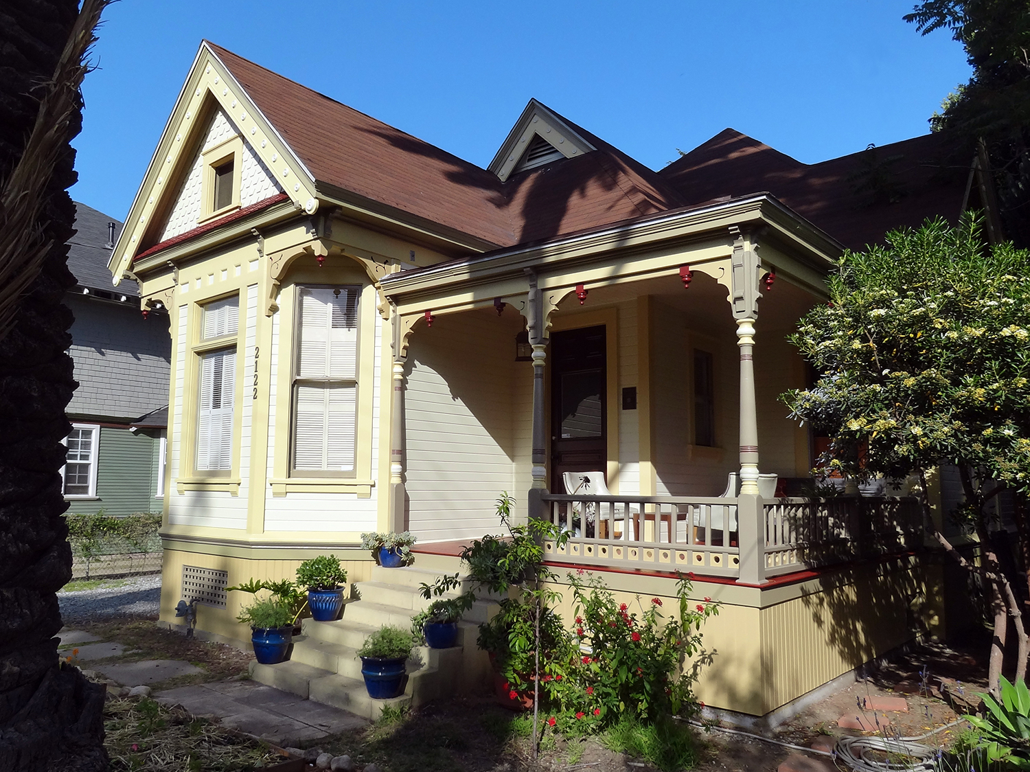 John B. Kane Resldence, 2122 Bonsallo Ave., West Adams, Los Angeles, CA (HCM #500)